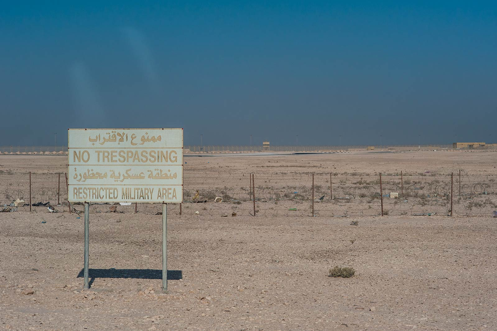 No trespassing sign at Al Udeid Air Base in Qatar.